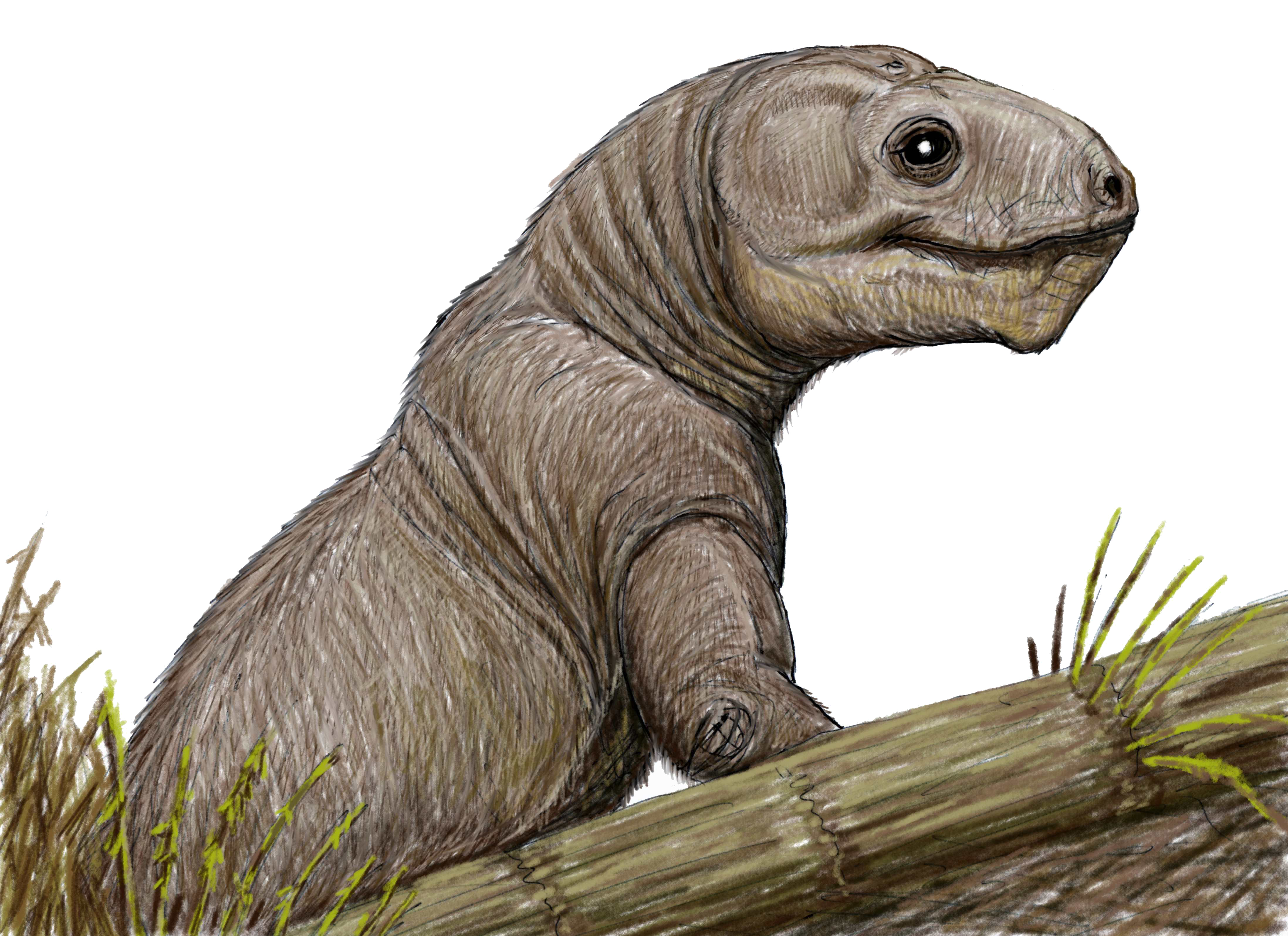 Biseridens qilianicus